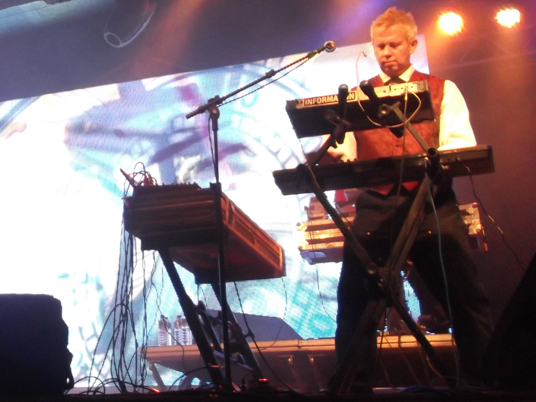 Paul Robb performing live with Information Society at July 21th 2012 in Taubaté, São Paulo, Brazil